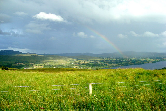 Above Lough Eske Changeable summer weather overlooking Loch Iascaigh on the descent from Brockaghy, part of the Bluestack Way walking route.